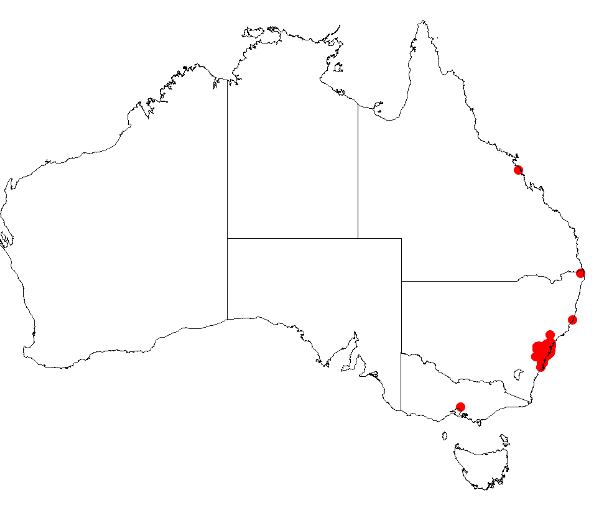 Darwinia fascicularis occurrence data from Australasian Virtual Herbarium downloaded 26 October 2019 from